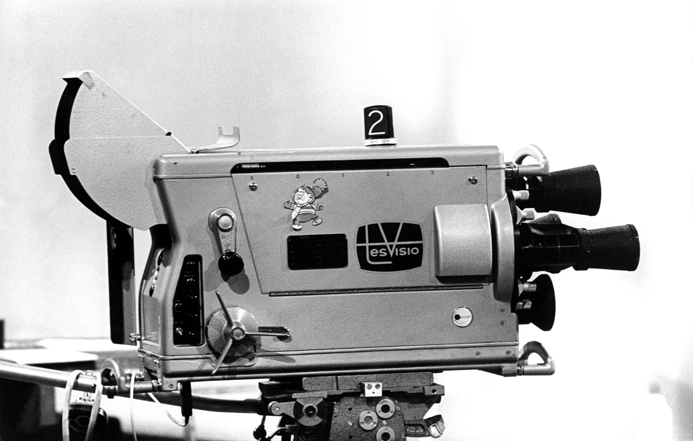 Tesvisio, 1957-1965, was the first television channel in Finland. Finnish Broadcasting Company bought Tamvisio in 1964 and Tesvisio in 1965 and together the channels merged as Yle TV2. Tesvision Marconi-merkkinen tv-kamera.